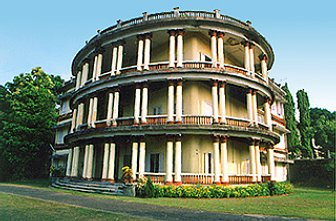 Royal palace in Kochi